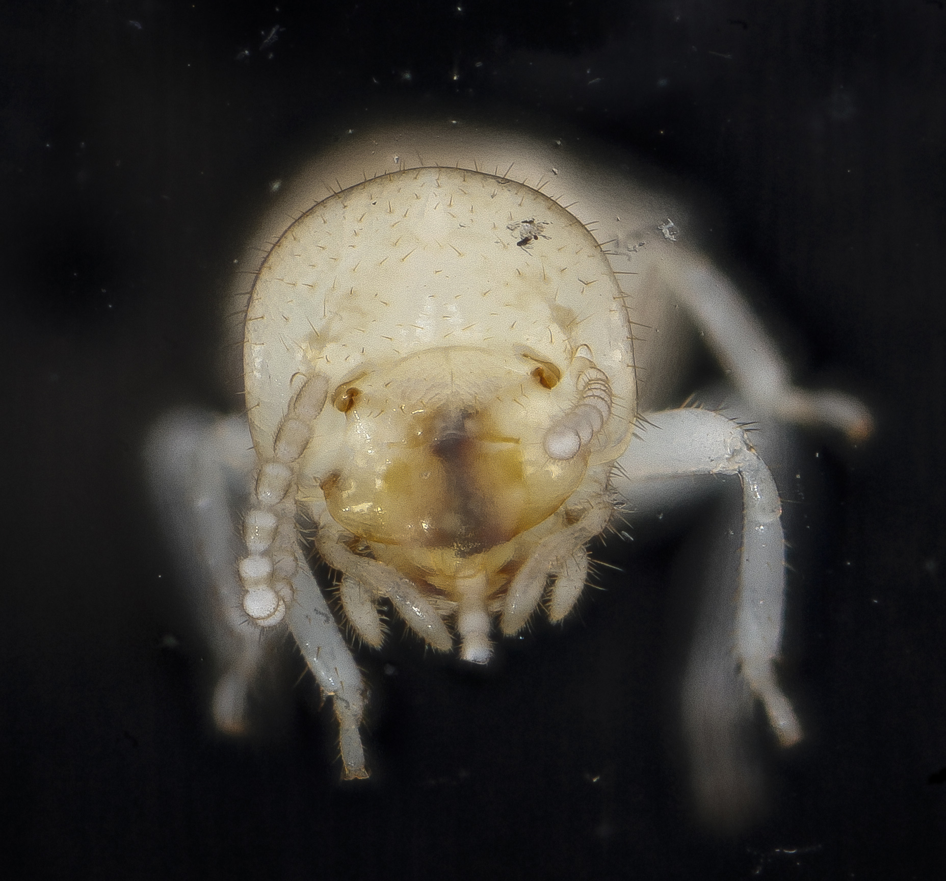 Reticulitermes flavipes, Eastern Subterranean Termite, worker, Beltsville, Maryland, floating in hand sanitizer